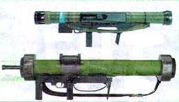 Comparison between the ARMBRUST (60mm) and the MATADOR (90mm)